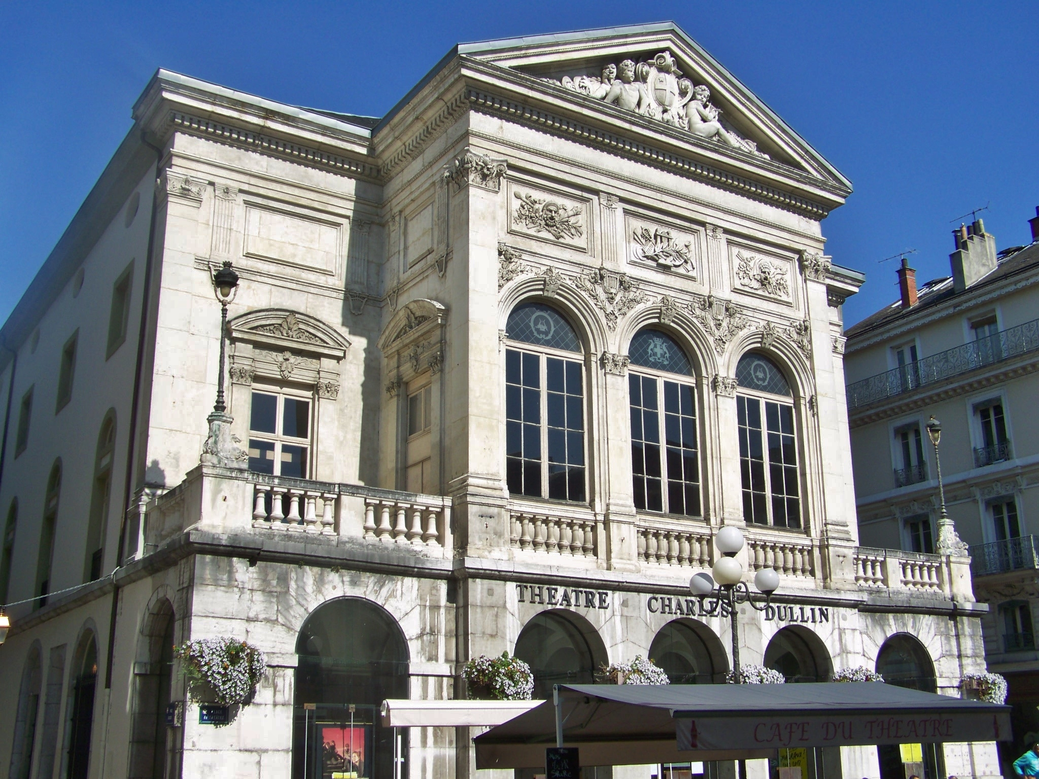 View of théâtre Charles Dullin theater front, in Chambéry, Savoie, France.